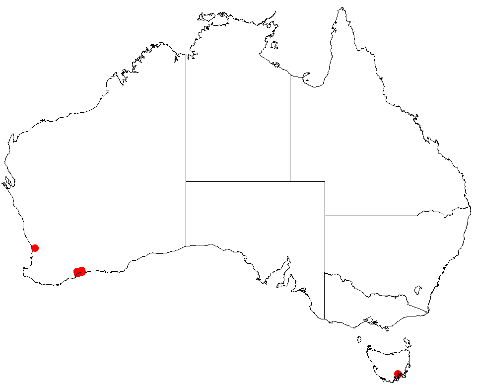 Hakea hookeriana Occurrence data downloaded from Australasian Virtual Herbarium on 22 November 2018 using